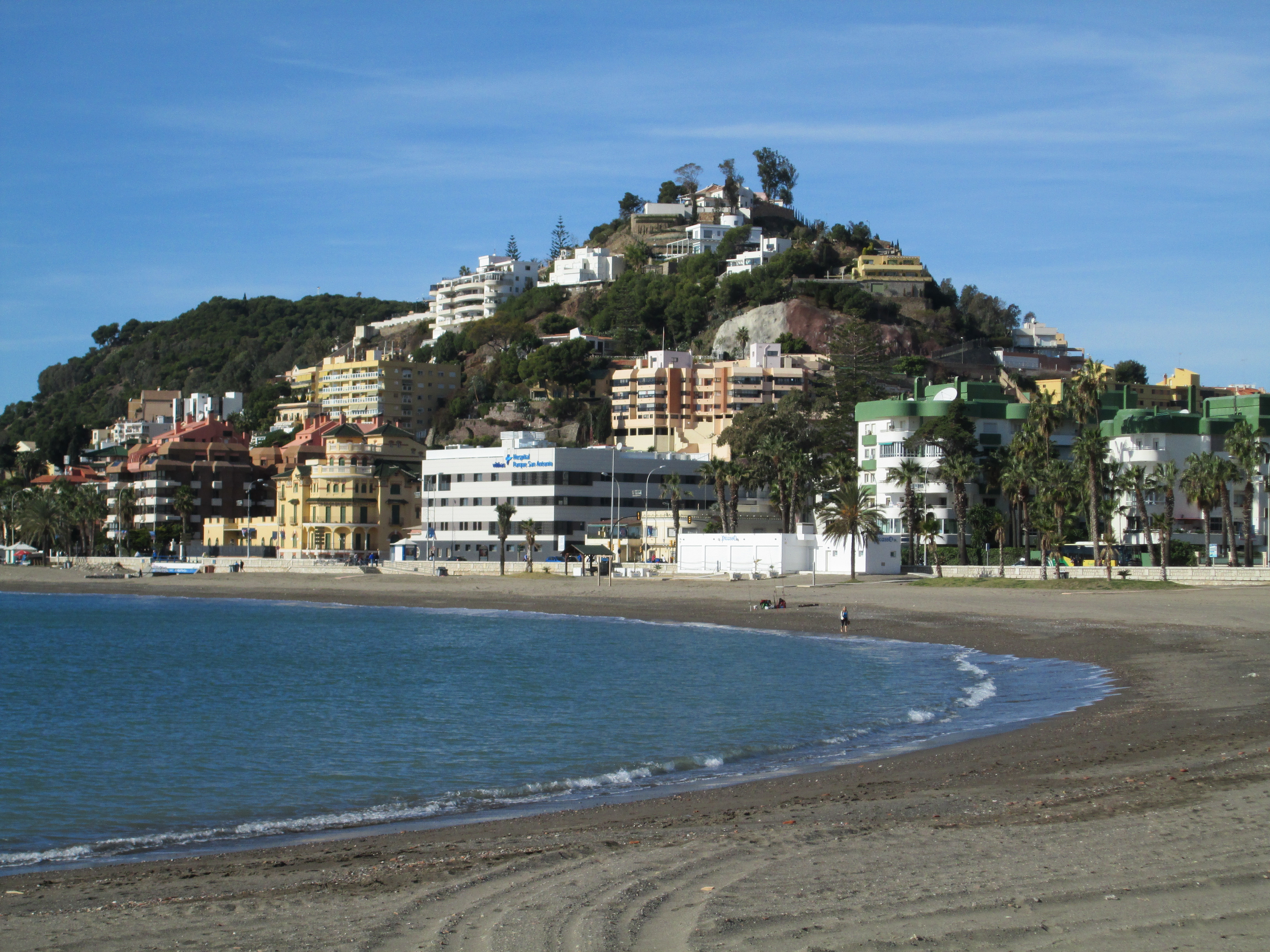 Playa de la Caleta & Monte Sancha, Málaga